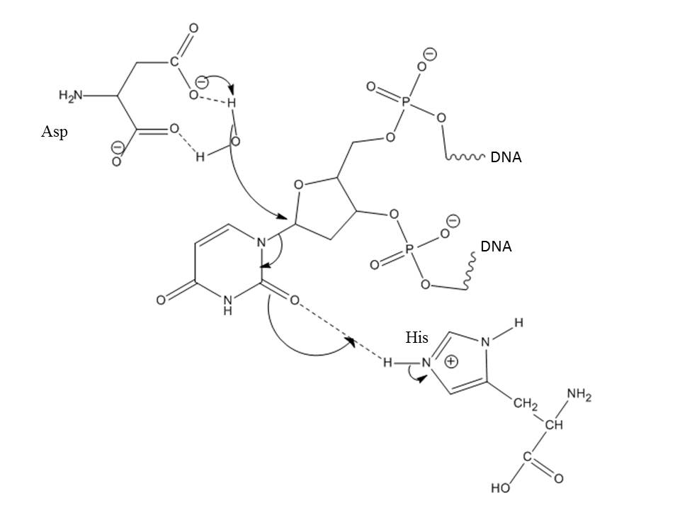 Cleavage of the C-N glycosidic bond in uracil DNA by uracil-DNA glycosylase.